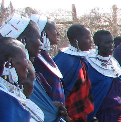 Eastern Serengeti Tanzania October 2007